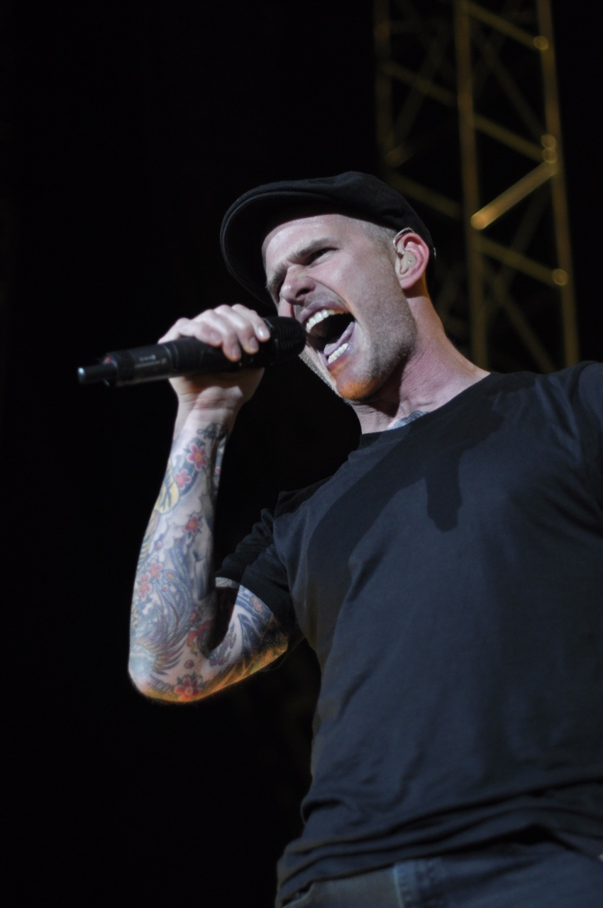 DropkickMurphys_Dig_fenway26